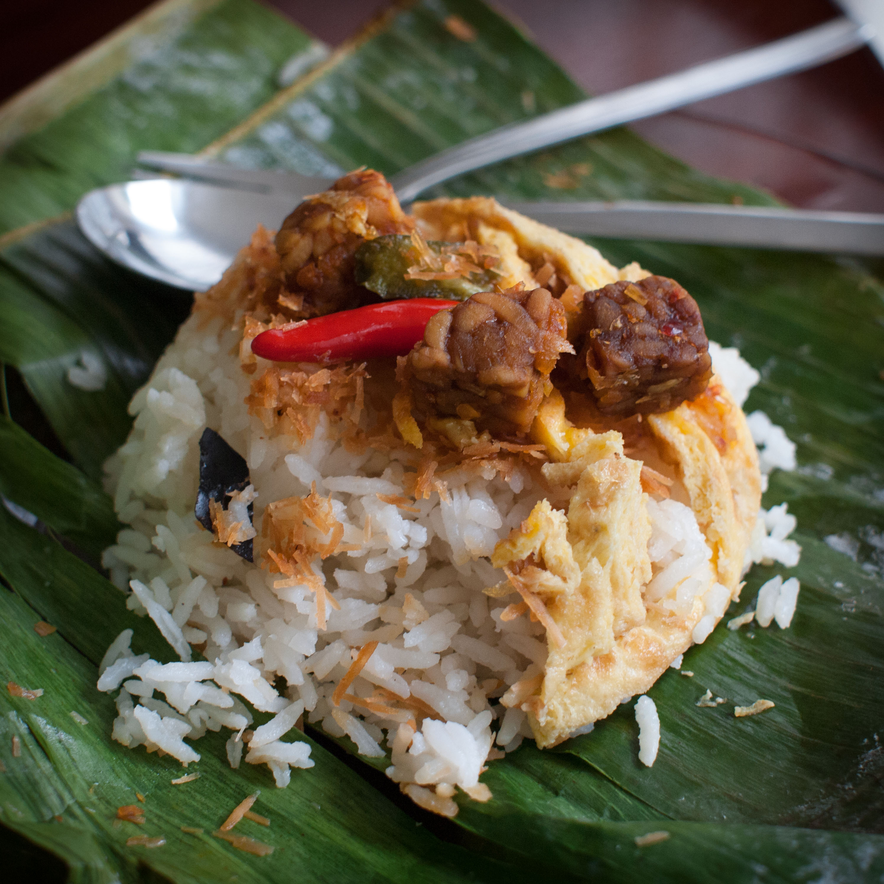 Indonesian Nasi uduk (rice cooked in coconut milk) is very similar to nasi lemak from Malaysia. The nasi uduk in this photo is from the Netherlands. It came wrapped in banana leaf and featured fried tempeh (soya bean cake), omelet, serundeng (seasoned and roasted coconut flakes), and peanuts. Image from 10-10-2012.